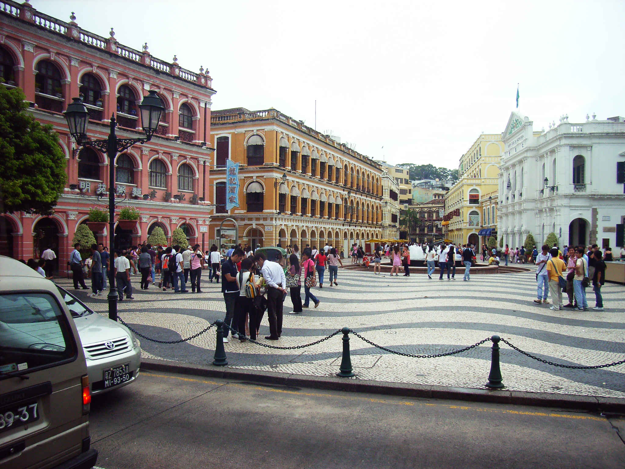 澳門街景 Macau sights